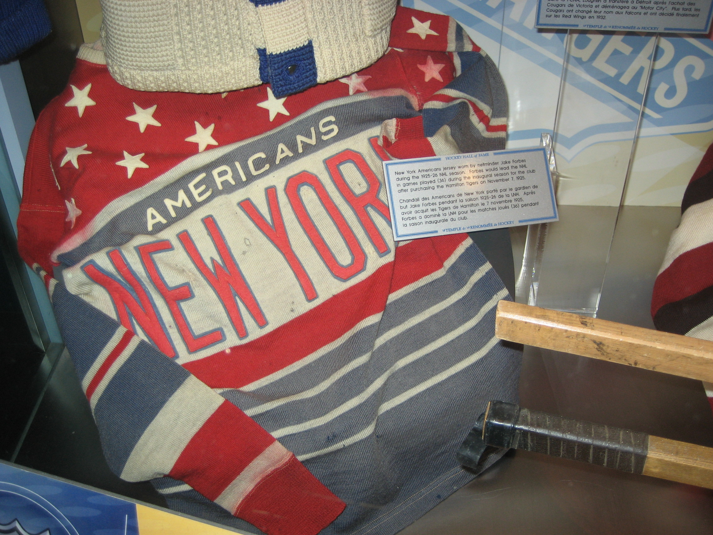 New York Americans team jersey, Hockey Hall-of-Fame, Toronto.